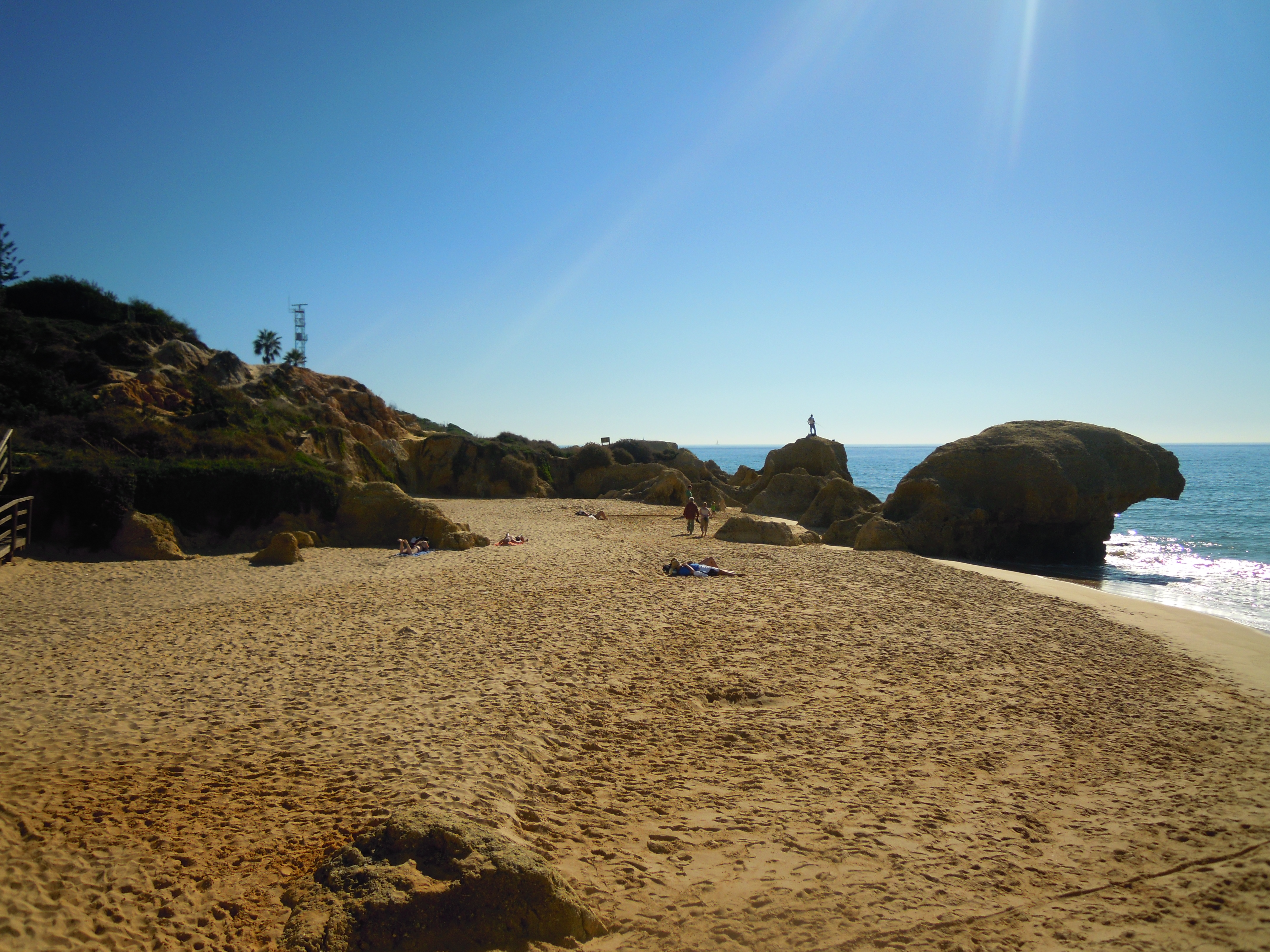 The eastern end of Praia da Galé near Albufeira, Algarve, Portugal